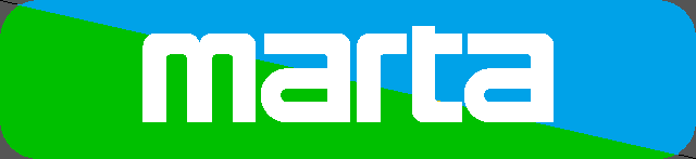 Wikivoyage route icon for MARTA's Green and Blue lines.